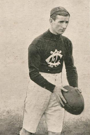 Photograph of Dick Harris from the 1910 Weekly Times Victorian Footballer Postcard Series